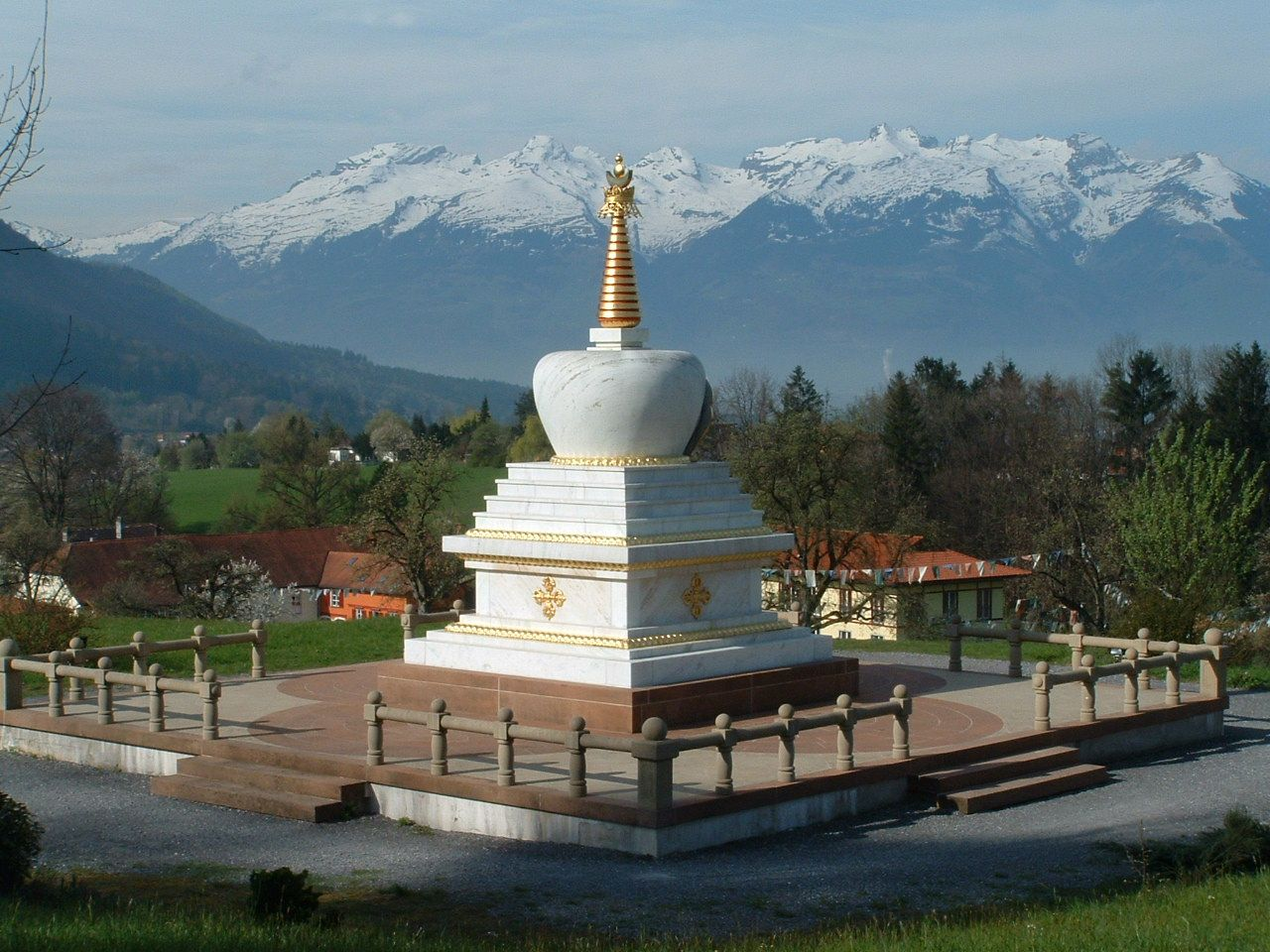 Buddhist Monastery Letzehof in Austria Photograph by Gakuro